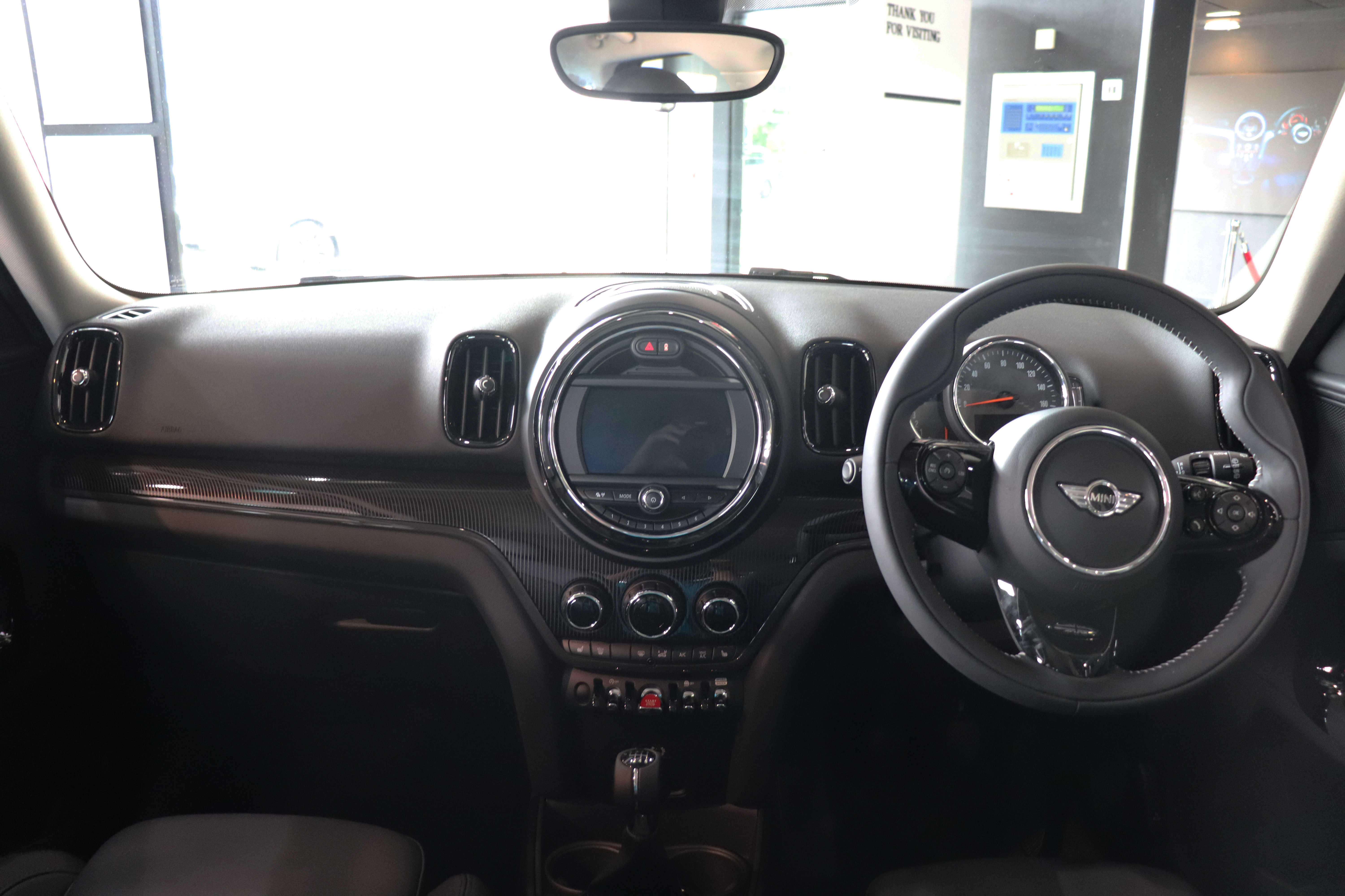 2018 Mini Countryman ALL4 1.5 Interior